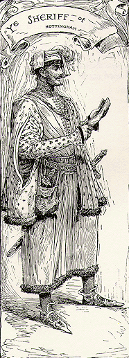 Sheriff of Nottingham